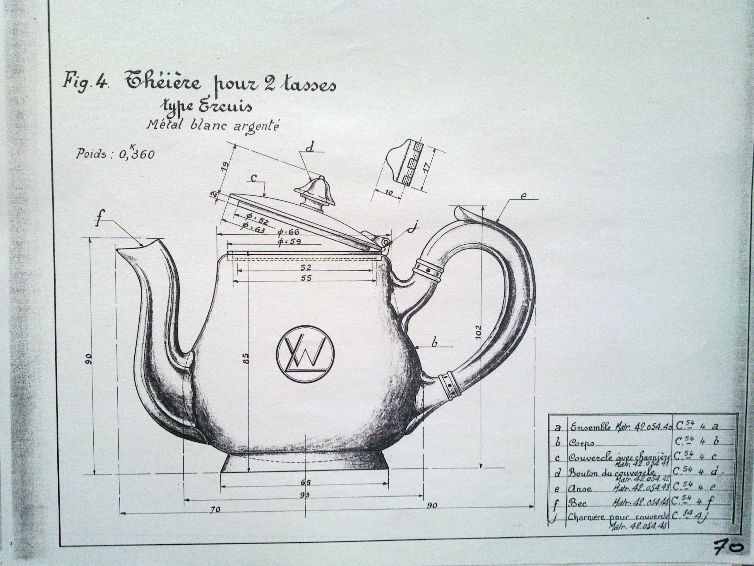 Plan of Compagnie Internationale des Wagons-Lits teapot